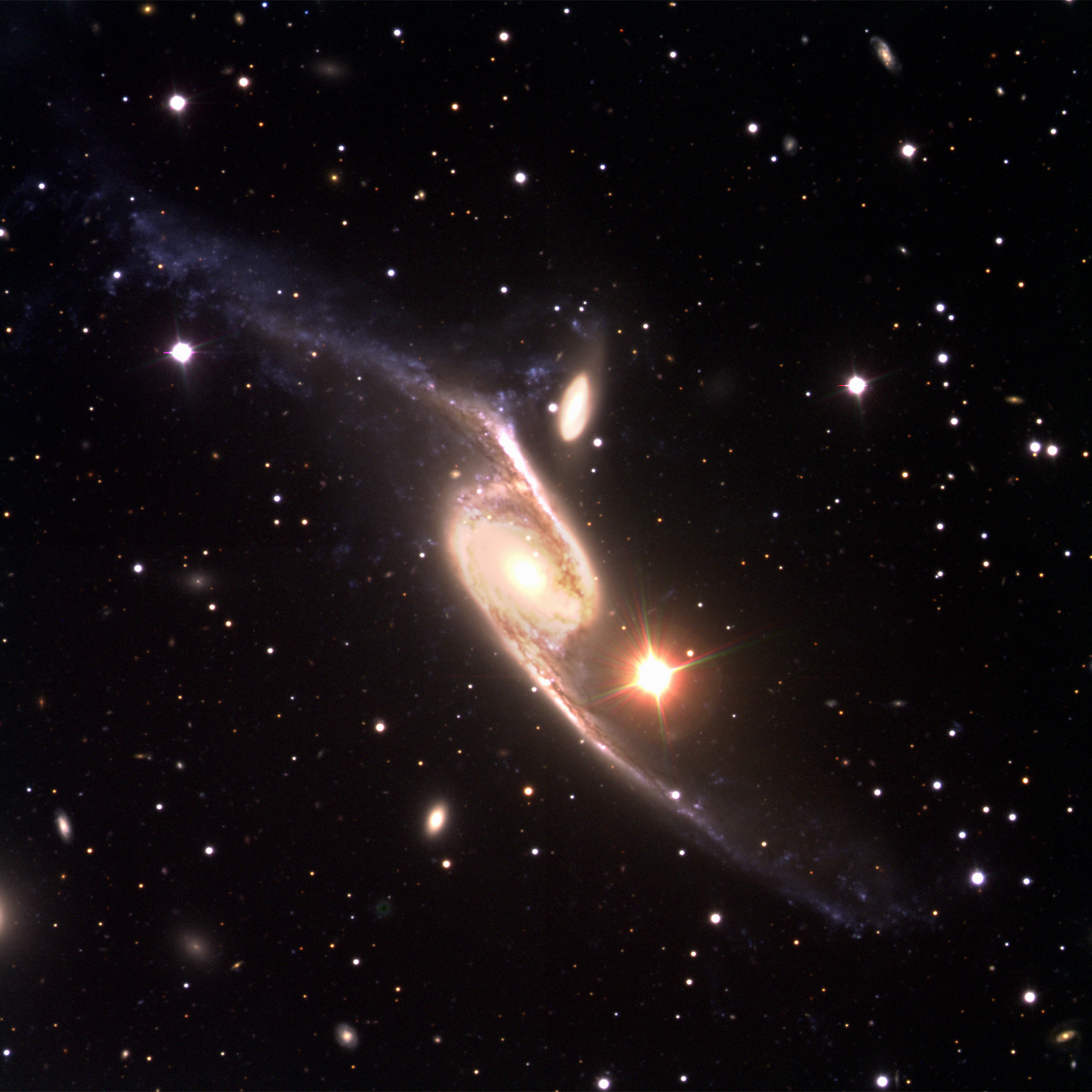 This image is a three-colour composite, this time reproduced from one blue (B), one green-yellow (V) and one red (R) exposure, obtained with the FORS1 instrument on the UT1/Antu telescope in the morning of March 29, 1999. The field size is again 6.8x6.8 arcmin 2. It shows the spectacular barred spiral galaxy NGC 6872 that is shaped like an "integral sign". It is of type SBb and is accompanied by a smaller, interacting galaxy, IC 4970 of type S0 (just above the centre). The bright object to the lower right of the galaxies is a star in the Milky Way whose image has been strongly overexposed and exhibits multiple optical reflections in the telescope and instrument. There are also many other, fainter and more distant galaxies of many different forms in the field. They are particularly well visible on the "Normal" and "Full Resolution" versions of the photo. The upper left spiral arm of NGC 6872 is significantly disturbed and is populated by a plethora of blueish objects, many of which are star-forming regions. This may have been be caused by a recent passage of IC 4970 through it. This interesting system is located in the southern constellation Pavo (The Peacock). It is comparatively distant, almost 300 million light-years away. It extends over more than 7 arcmin in the sky and its real size from tip to tip is thus nearly 750,000 light-years. It is in fact one of the largest known, barred spiral galaxies. In order to image all of this extraordinary object within the available field of the FORS1 camera, the instrument was rotated so that the galaxy extends along the diagonal. For this reason, the orientation is such that North is to the upper right and East is to the upper left.